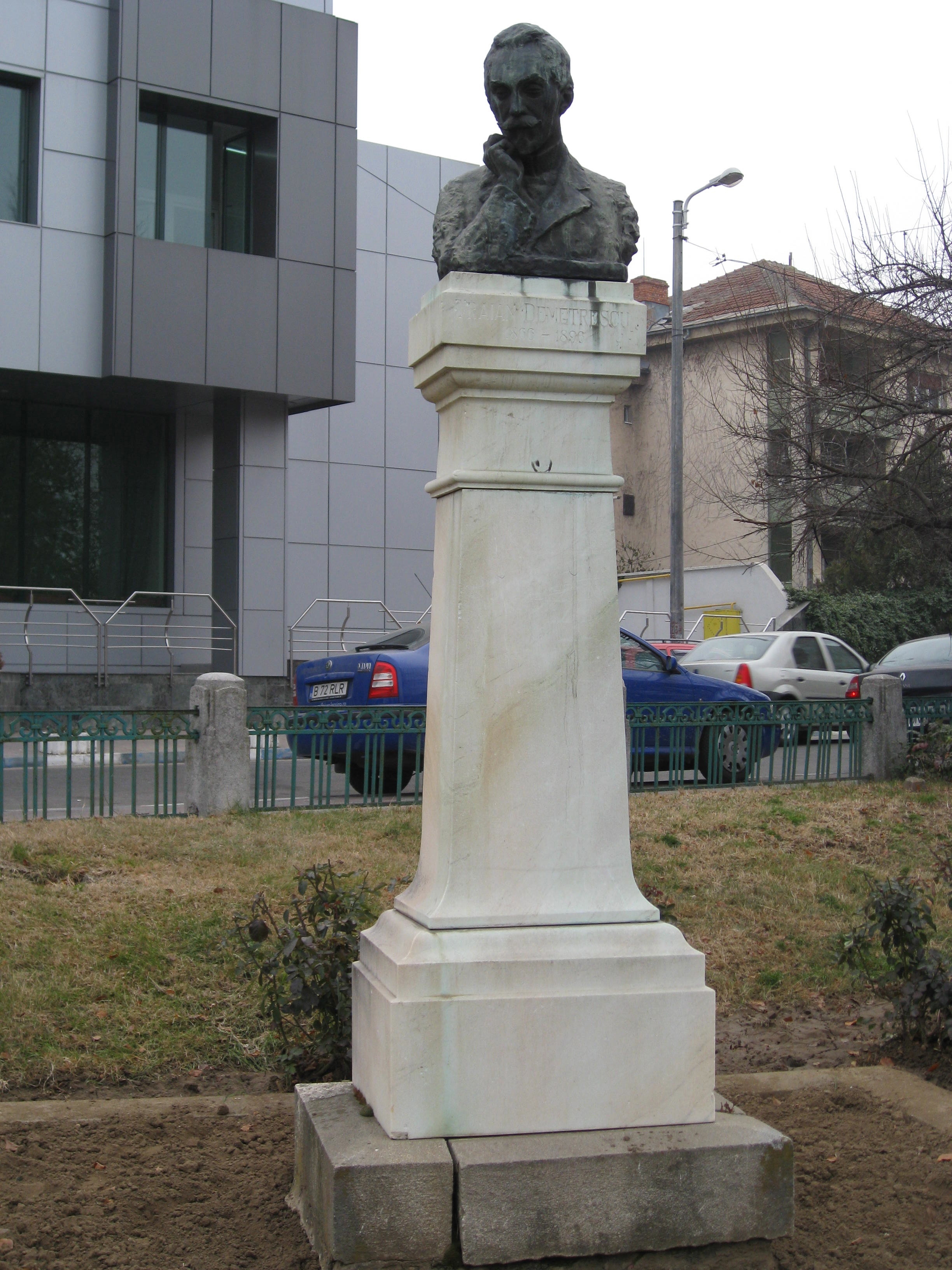 Bust in Craiova of Traian Demetrescu (1866-1896), Romanian poet